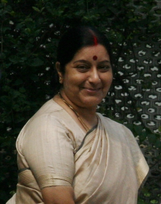 BJP Party leader Sushma Swaraj greets Secretary of State Hillary Clinton at her residence in New Delhi, July 19, 2011